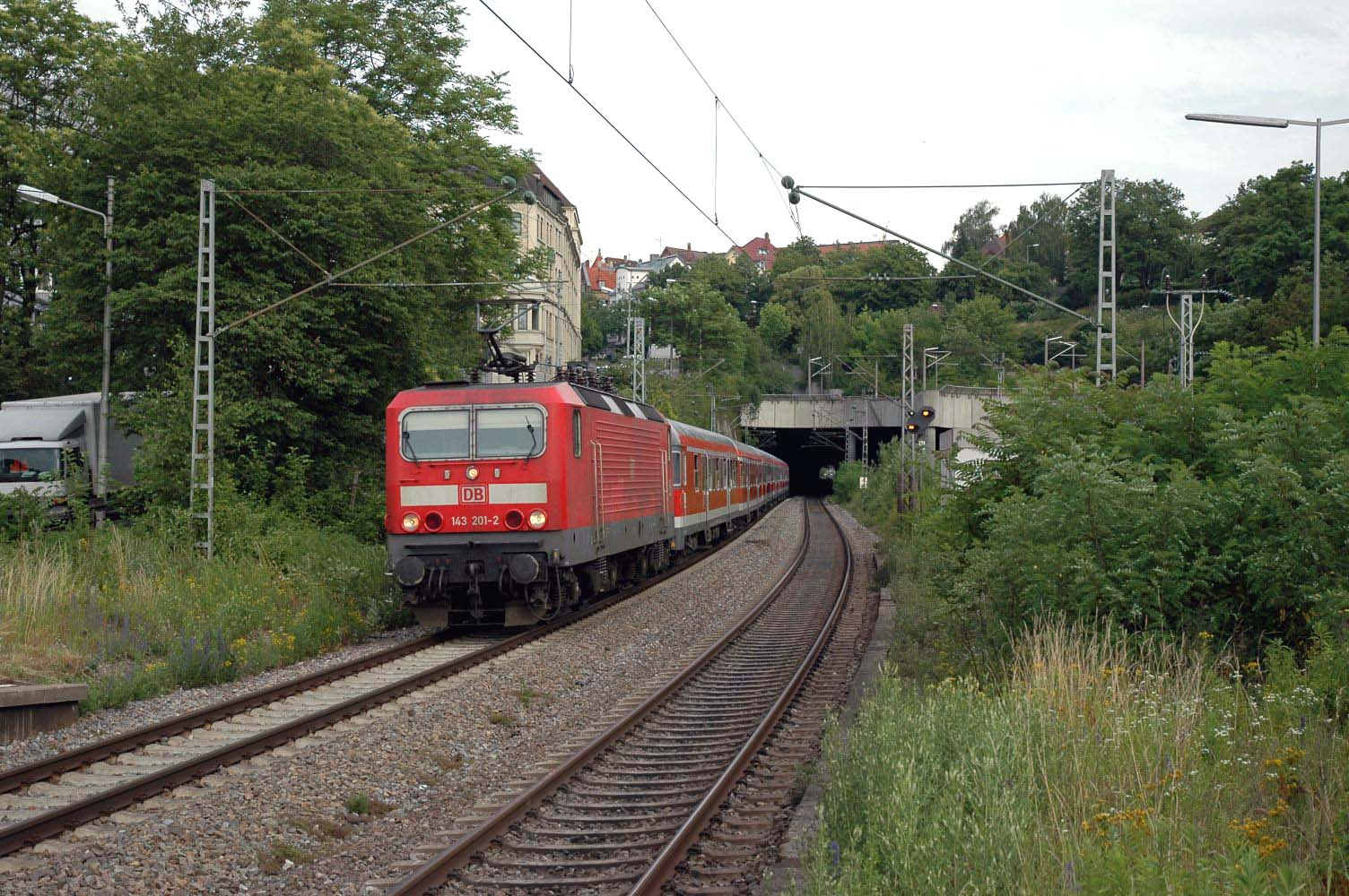 DB 143 201 with regional train RB 19870, destination Heilbronn leaving the Prag tunnel in Stuttgart-Feuerbach, train number.